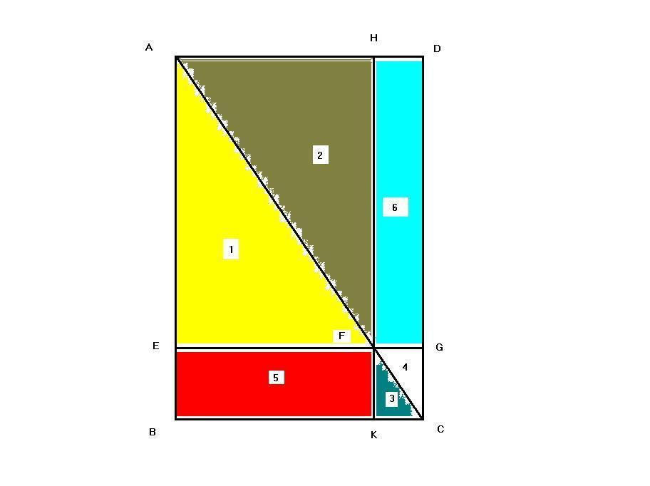 Rectangle in right angle triangle